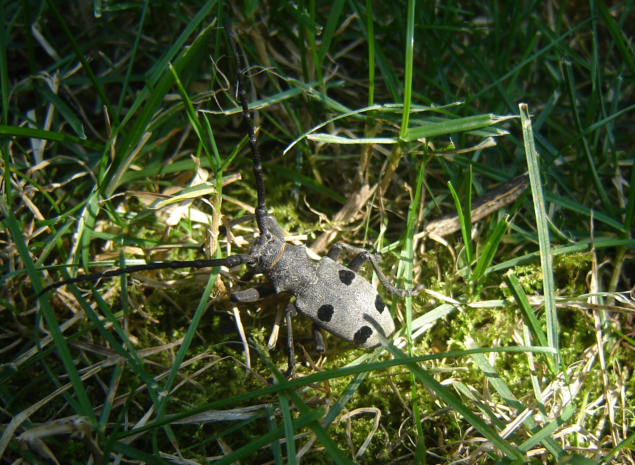 Morimus funereus in the grass. Shot in my backyard, Botevgrad, Bulgaria